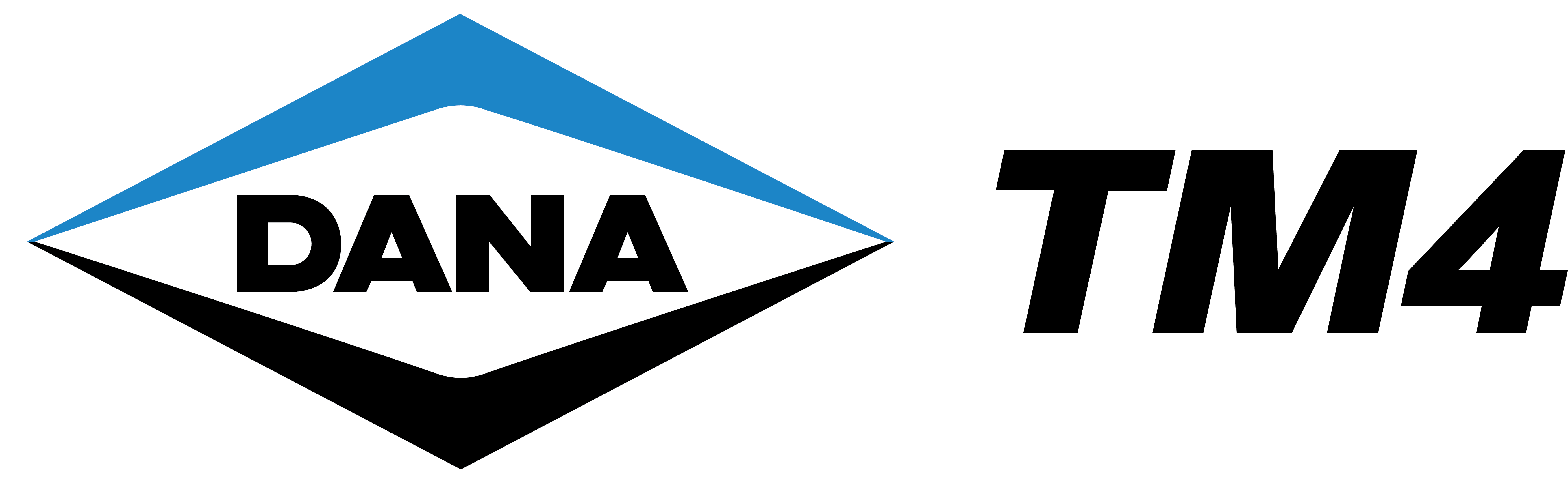 Dana TM4 Logo_2019